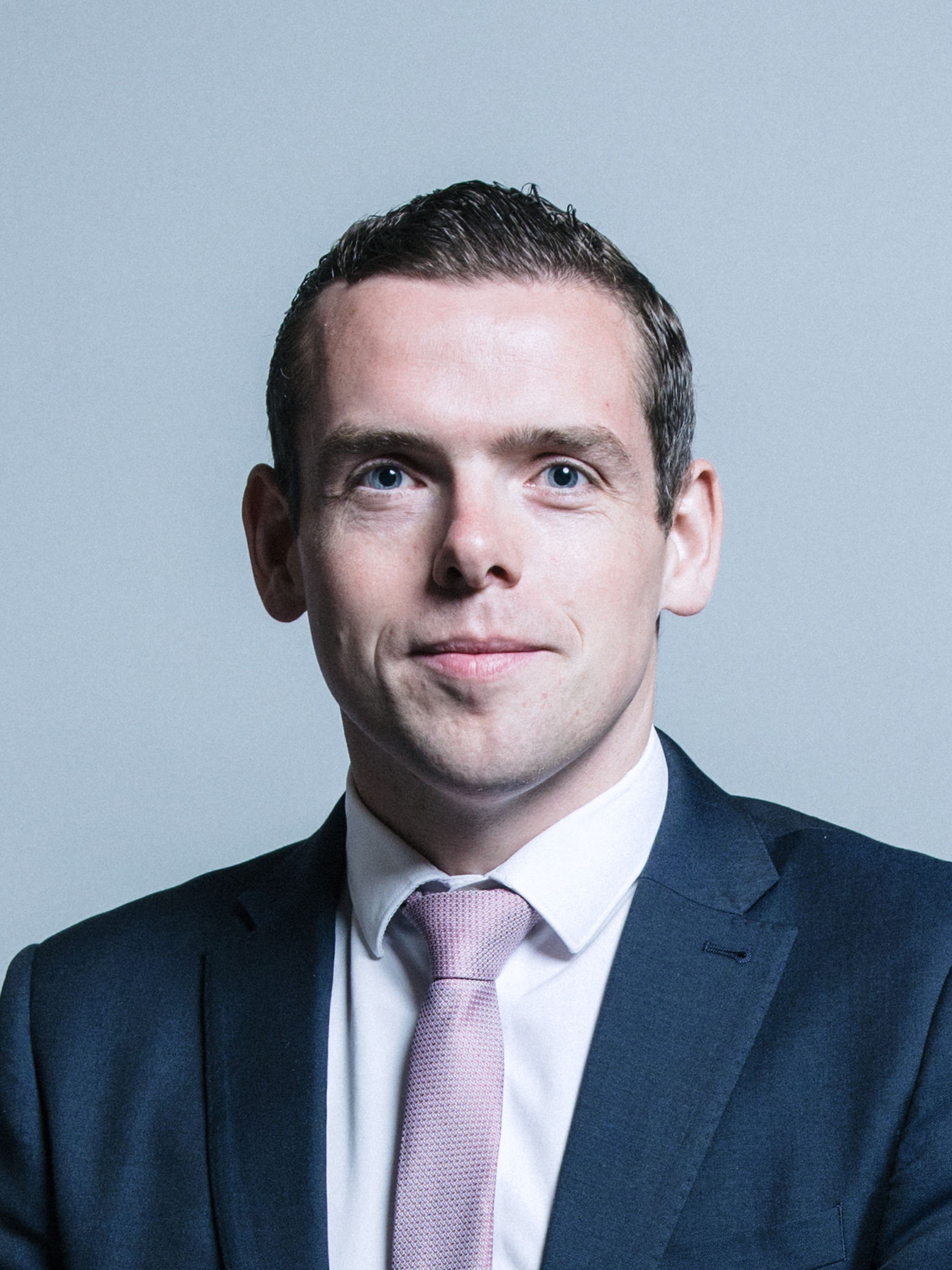 Official portrait of Douglas Ross